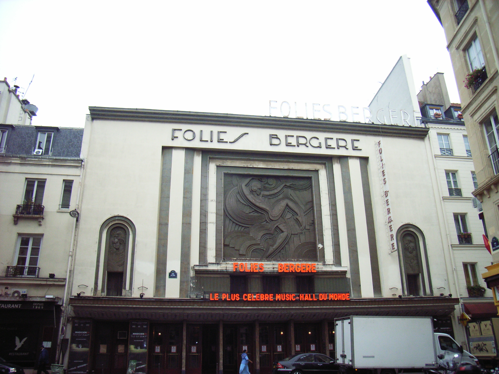 Facade of Folies Bergère